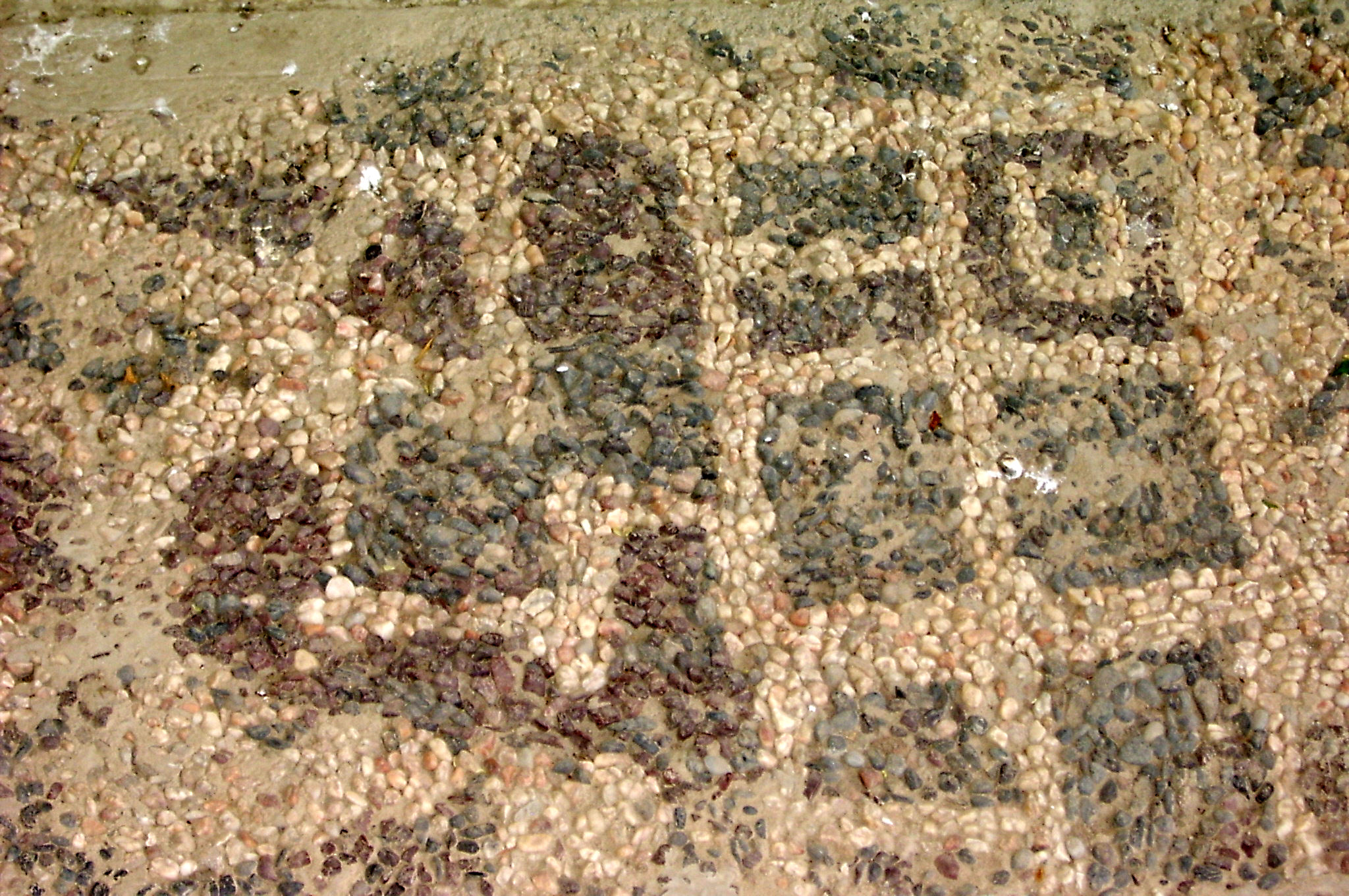 Phrygian mosaic form Gordion.